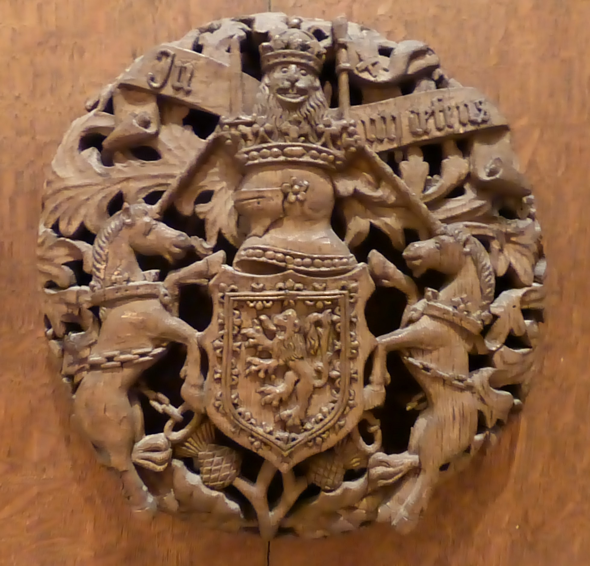 Heraldic boss of the Scottish Royal Arms from the apartments of Cardinal David Beaton in St. Andrews Castle, Fife.